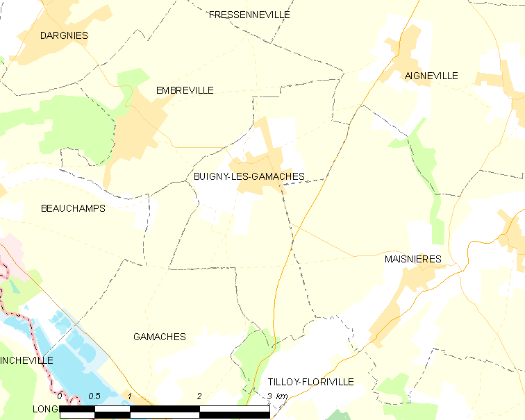 Map of French municipality Buigny-lès-Gamaches